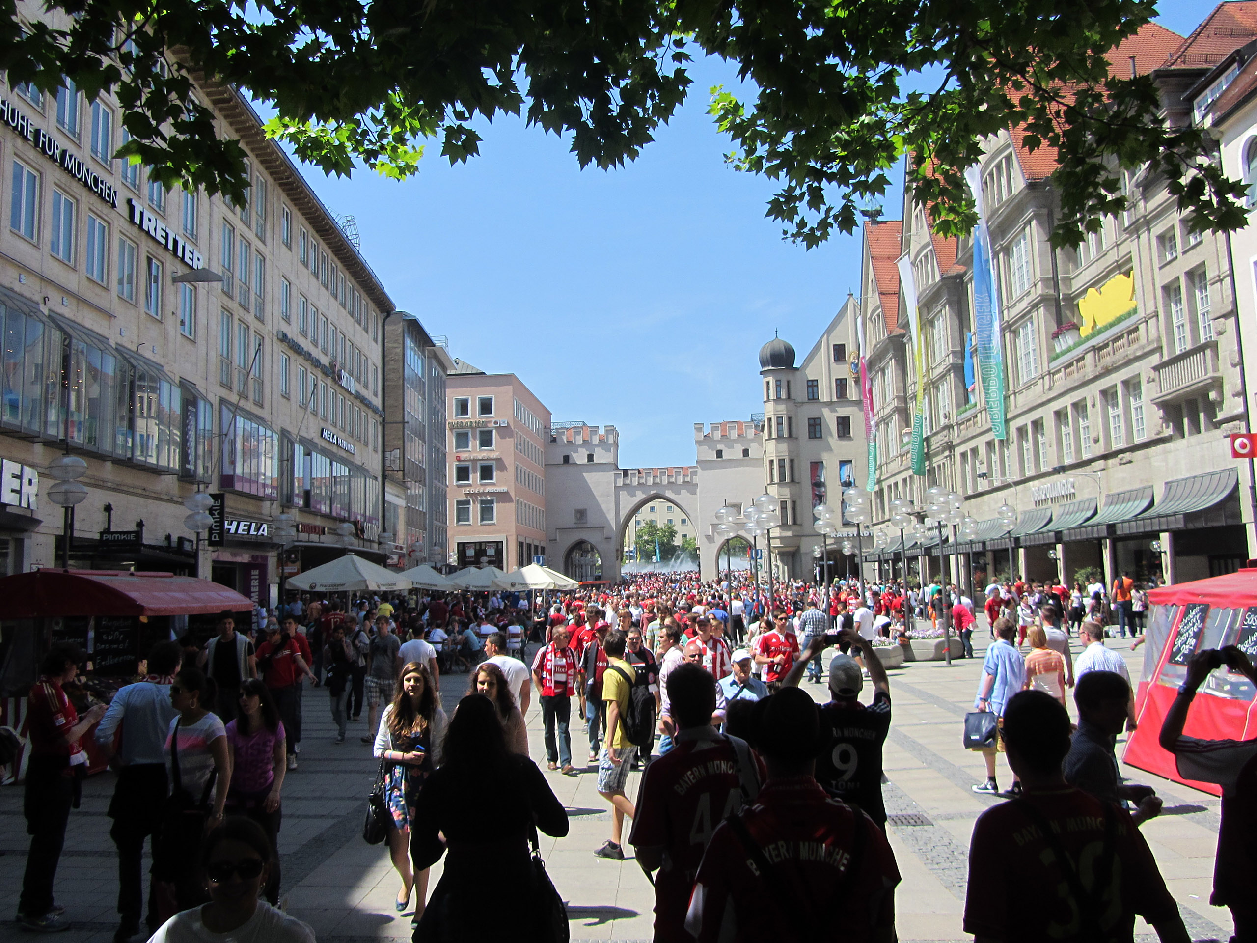 Bayern München - Chelsea FC 19.05.2012 Champions League Finale 2012 / "Finale Dahoam" Stimmung am Nachmittag in der Kaufinger Straße Champions League Final 2012 Atmosphere in the city in the afternoon